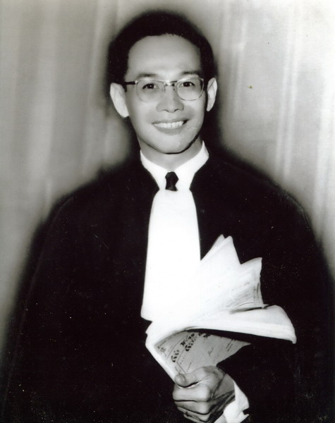 My uncle in the 30's era